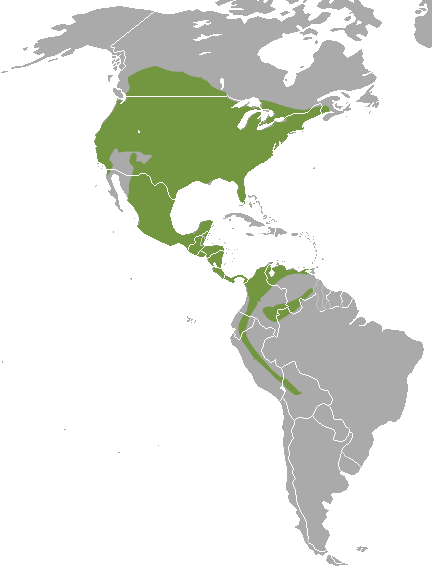 Long-tailed Weasel (Mustela frenata) range